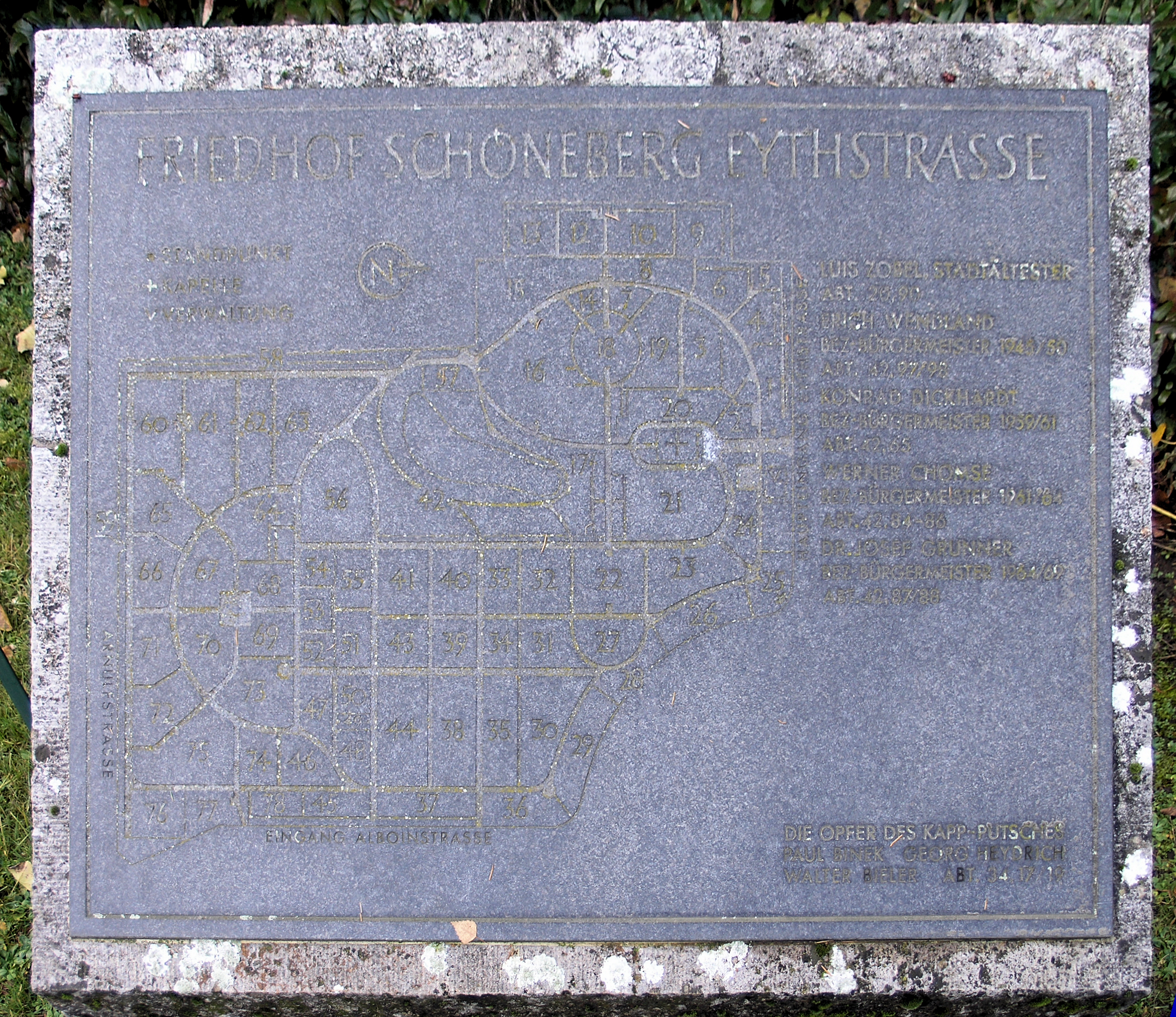 Memorial plaque, II. Städtischer Friedhof Eythstraße, Eythstraße 1, Berlin-Schöneberg, Germany